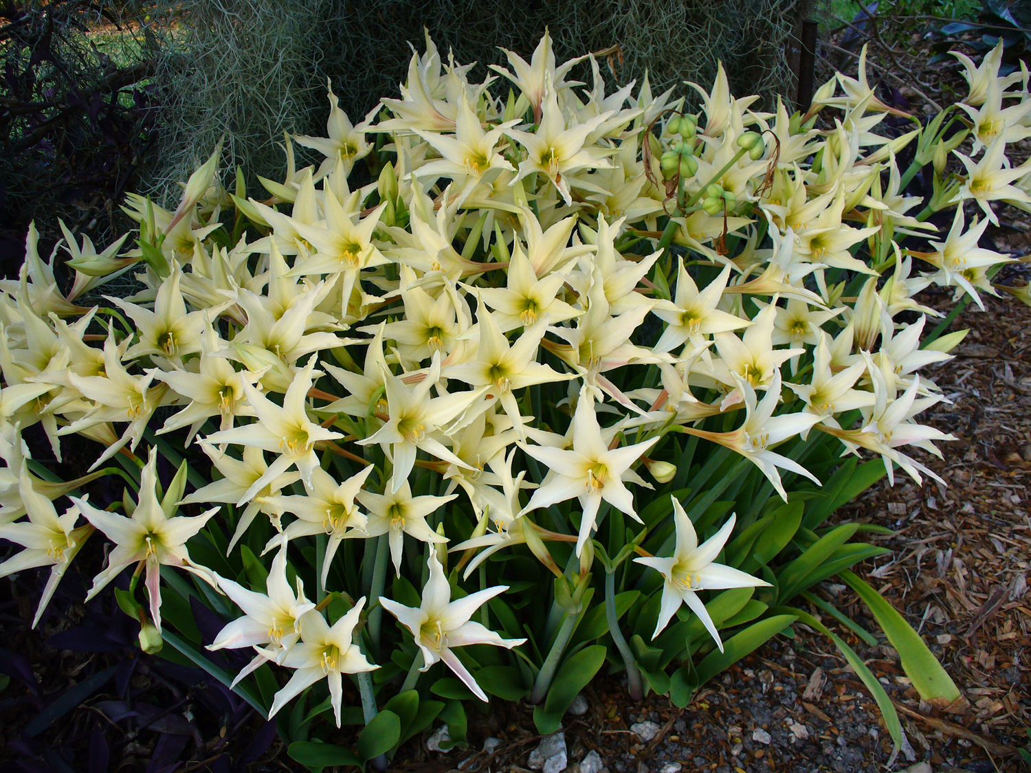 South Miami, FL, USA. At peak bloom.